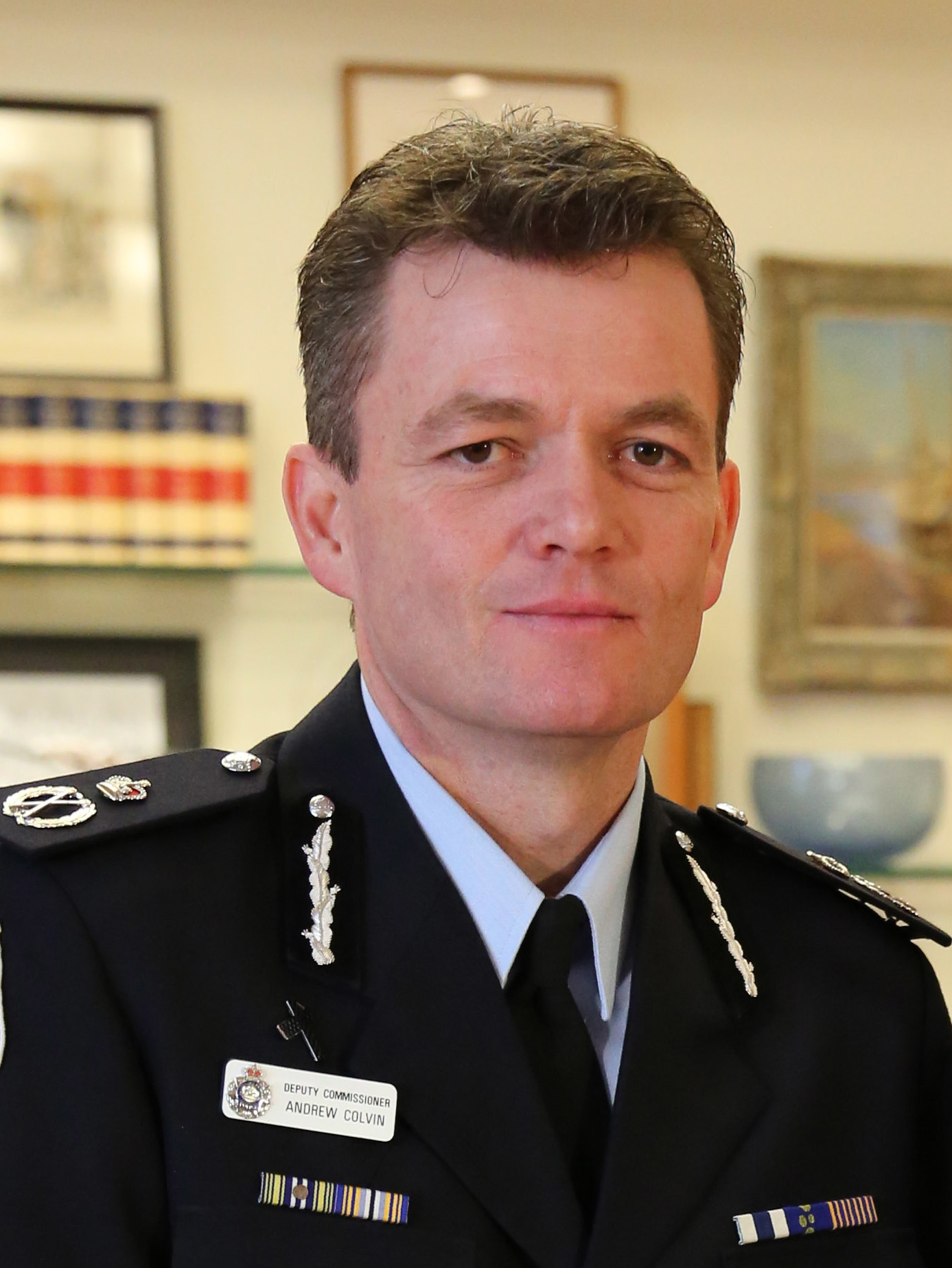 Press Conference to announce the Appointment of Australian Federal Police Commissioner, Andrew Colvin